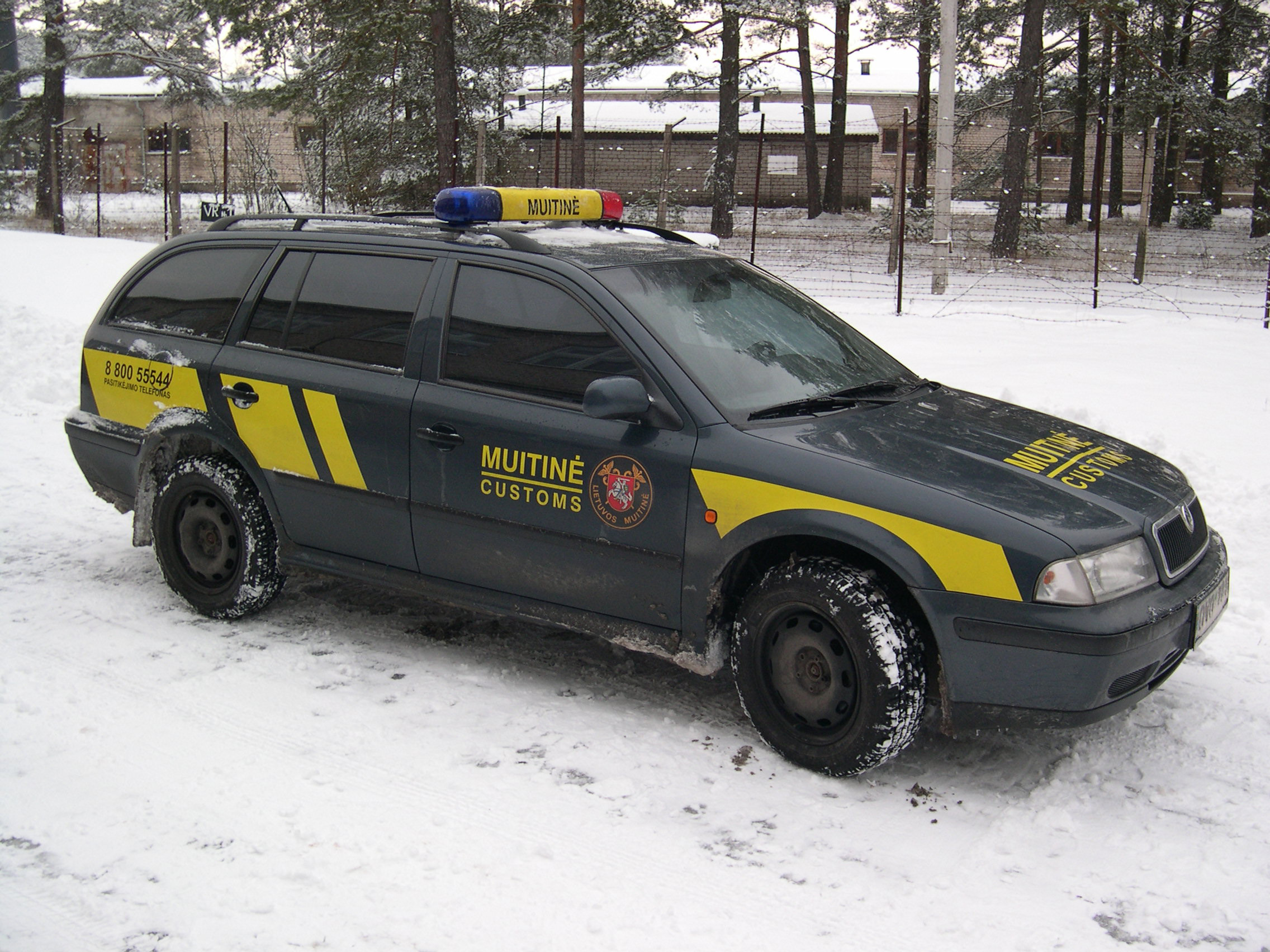 Vehicle of mobile group of Lithuanian Customs